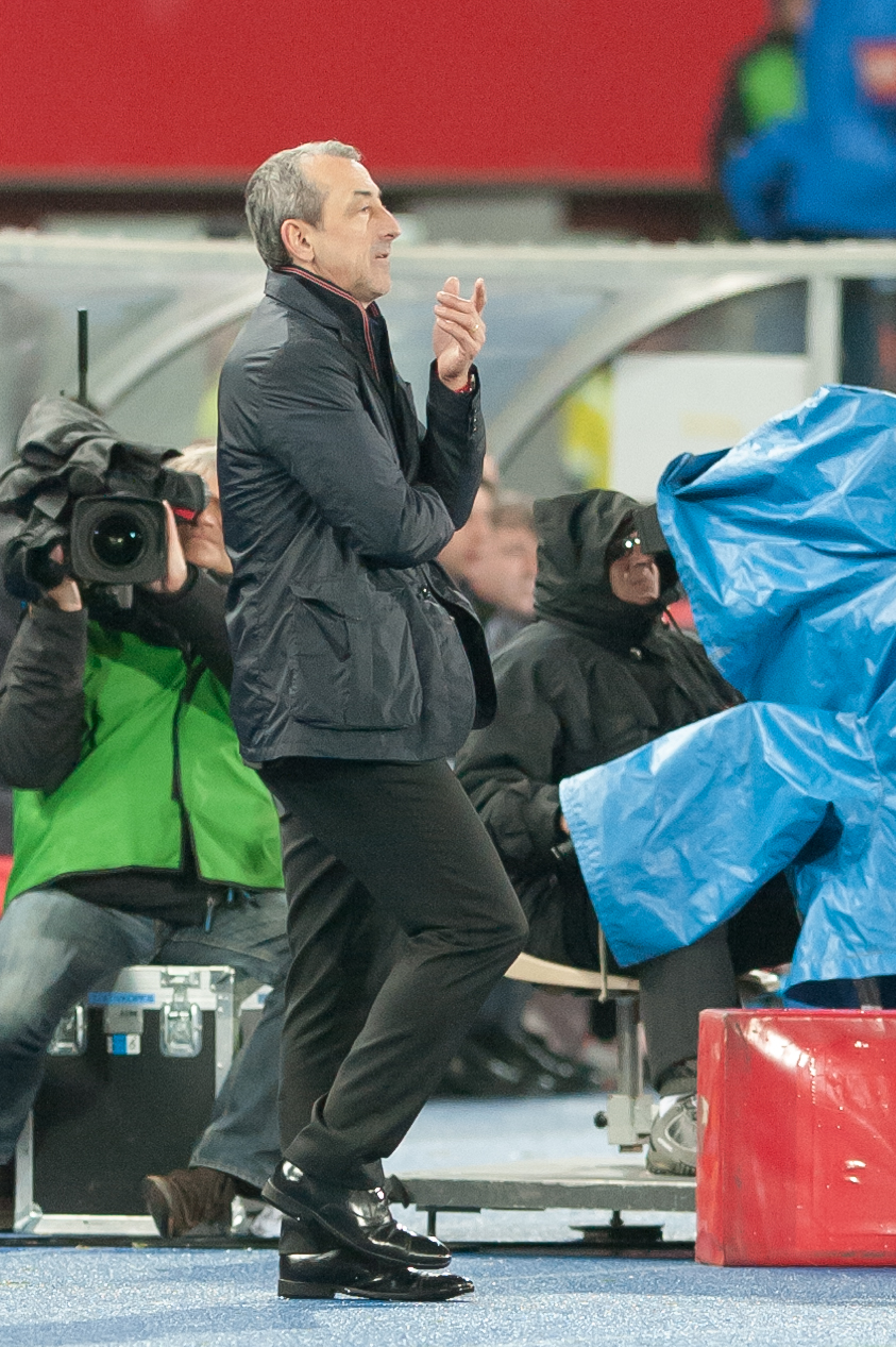 International friendly Austria vs. Bosnia and Herzegovina, 2015-03-31, Vienna